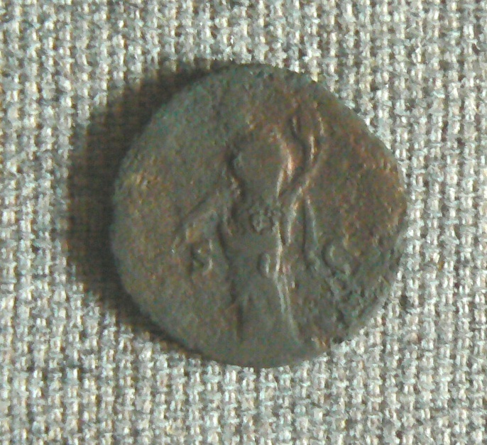 A Roman coin in Devnya Museum of Mosaics